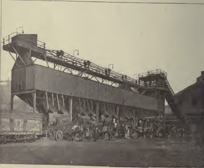 Coke Hopper, Fulham, Gas Light & Coke Co